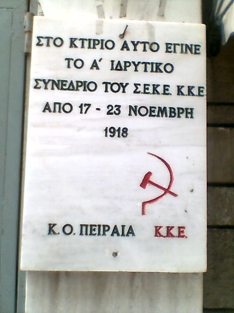 A plaque read: "In this building took place the 1st, founding congress of the Communist Party of Greece (SEKE/KKE) in 17 - 23 November 1918.